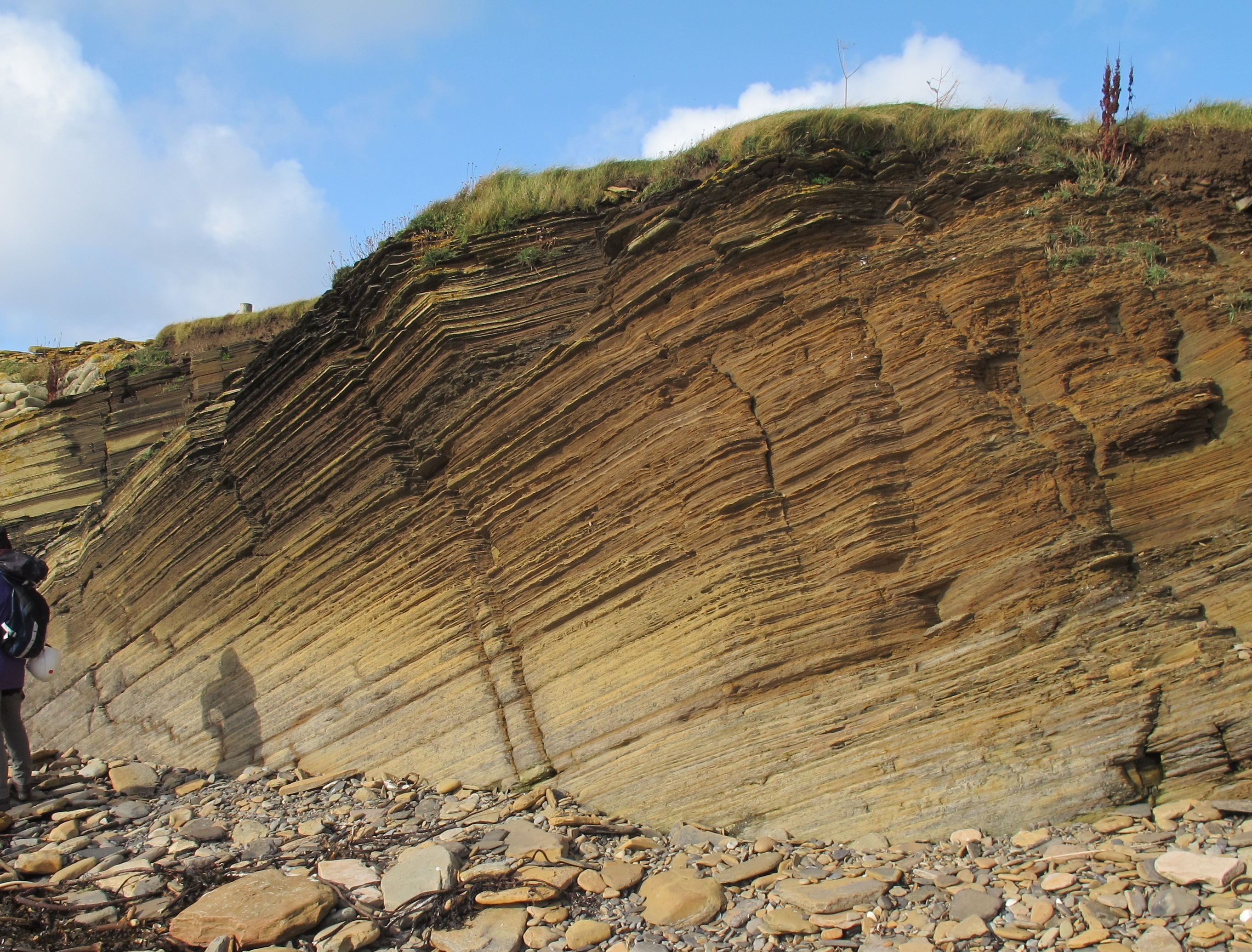 Fine carbonate laminites of the Sandwick Fish Bed on the Stromness Shore section